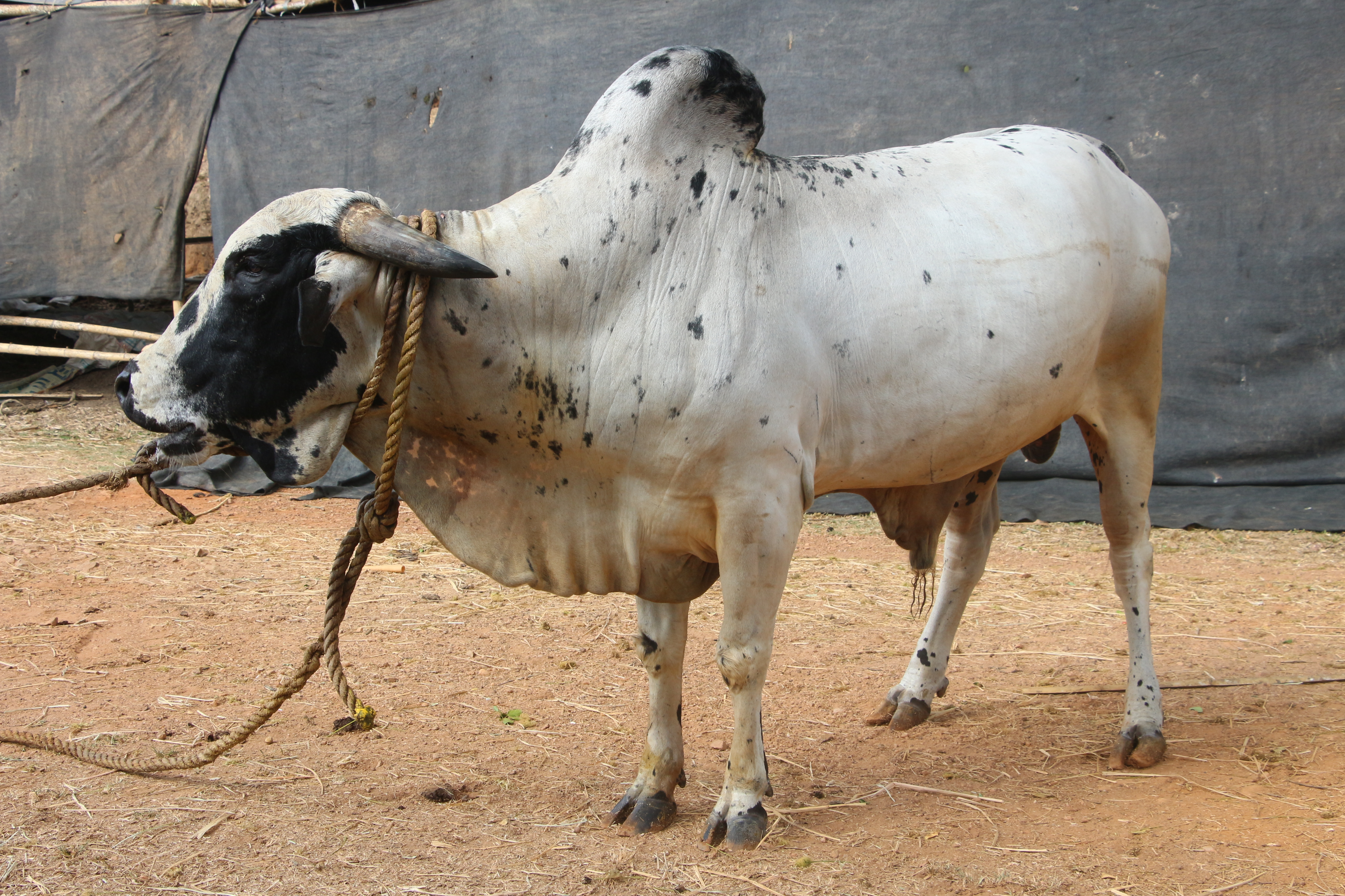 Indian cow breed Dangi ಕನ್ನಡ: ಭಾರತೀಯ ಗೋತಳಿ ಡಾಂಗಿ